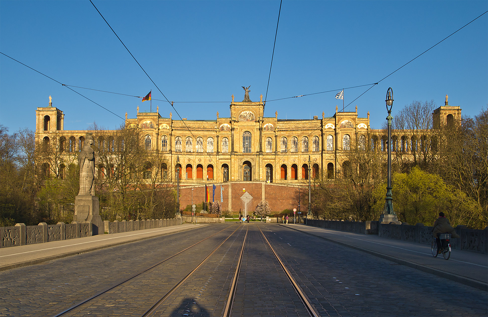 Maximilianeum in Munich-Haidhausen - state parliament Bavaria